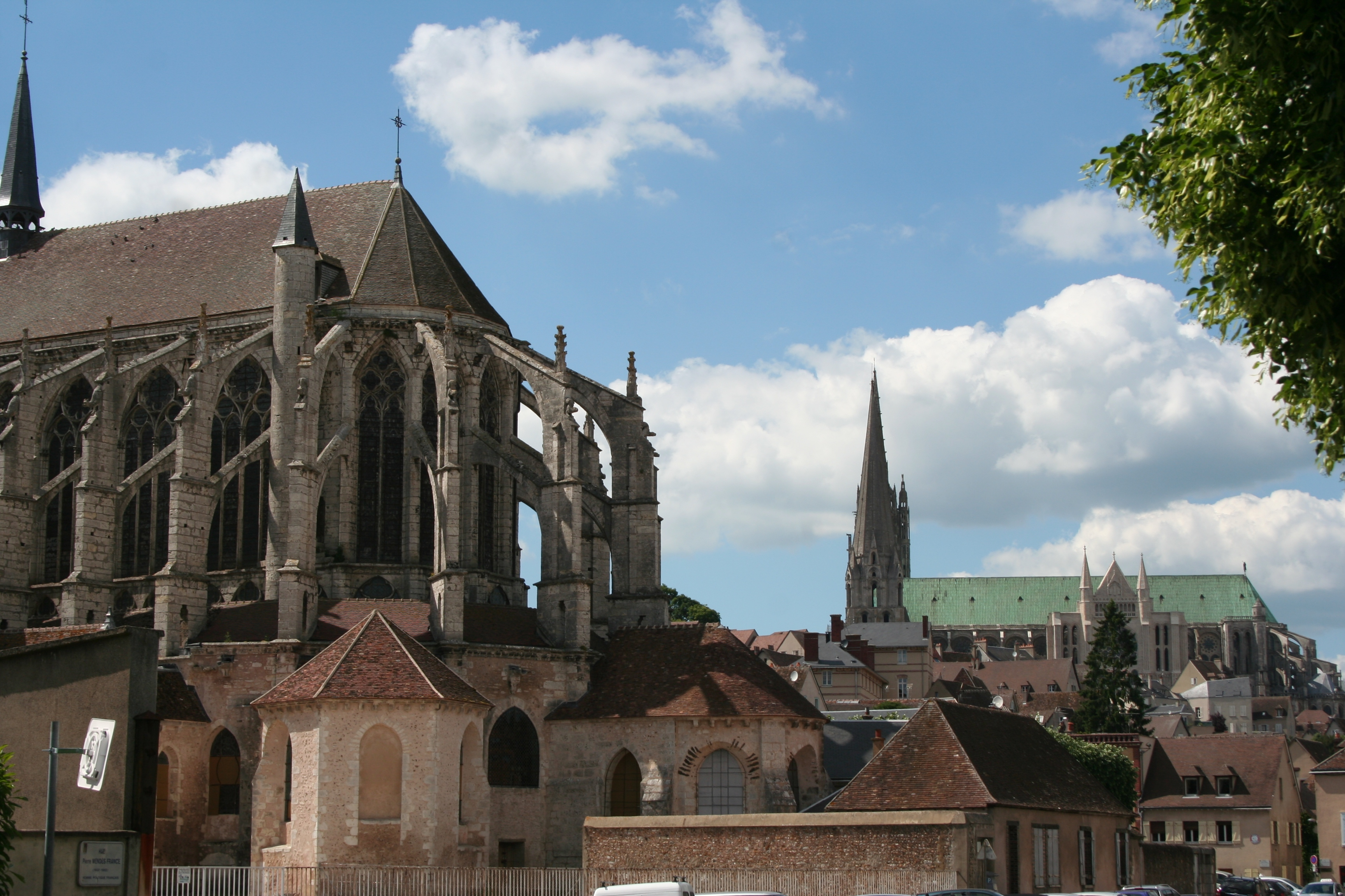 Church of Saint-Pierre, Chartres, France; east end, seen from Rue de l'Âne-Rez. In the background, to the right, the Cathédrale Notre-Dame.